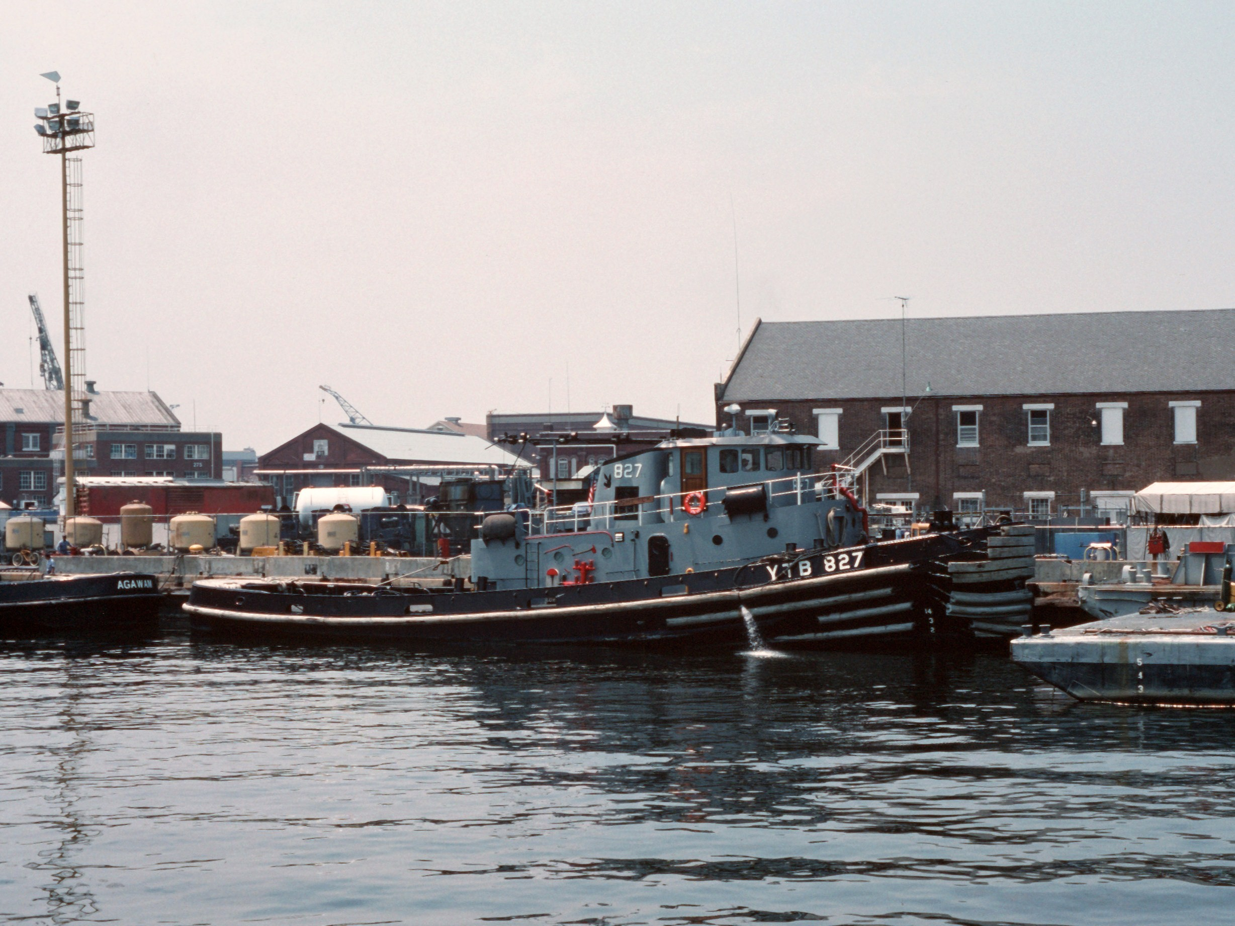 Chetek (YTB-827) tied up at Norfolk Naval Shipyard, Portsmouth, VA., 7 July 1988. Agawam (YTB-809) is astern of Agawam. DVIC photo # DN-ST-88-07989 by Don S. Montgomery USN Ret., from the collections of the Defense Visual Information Center.